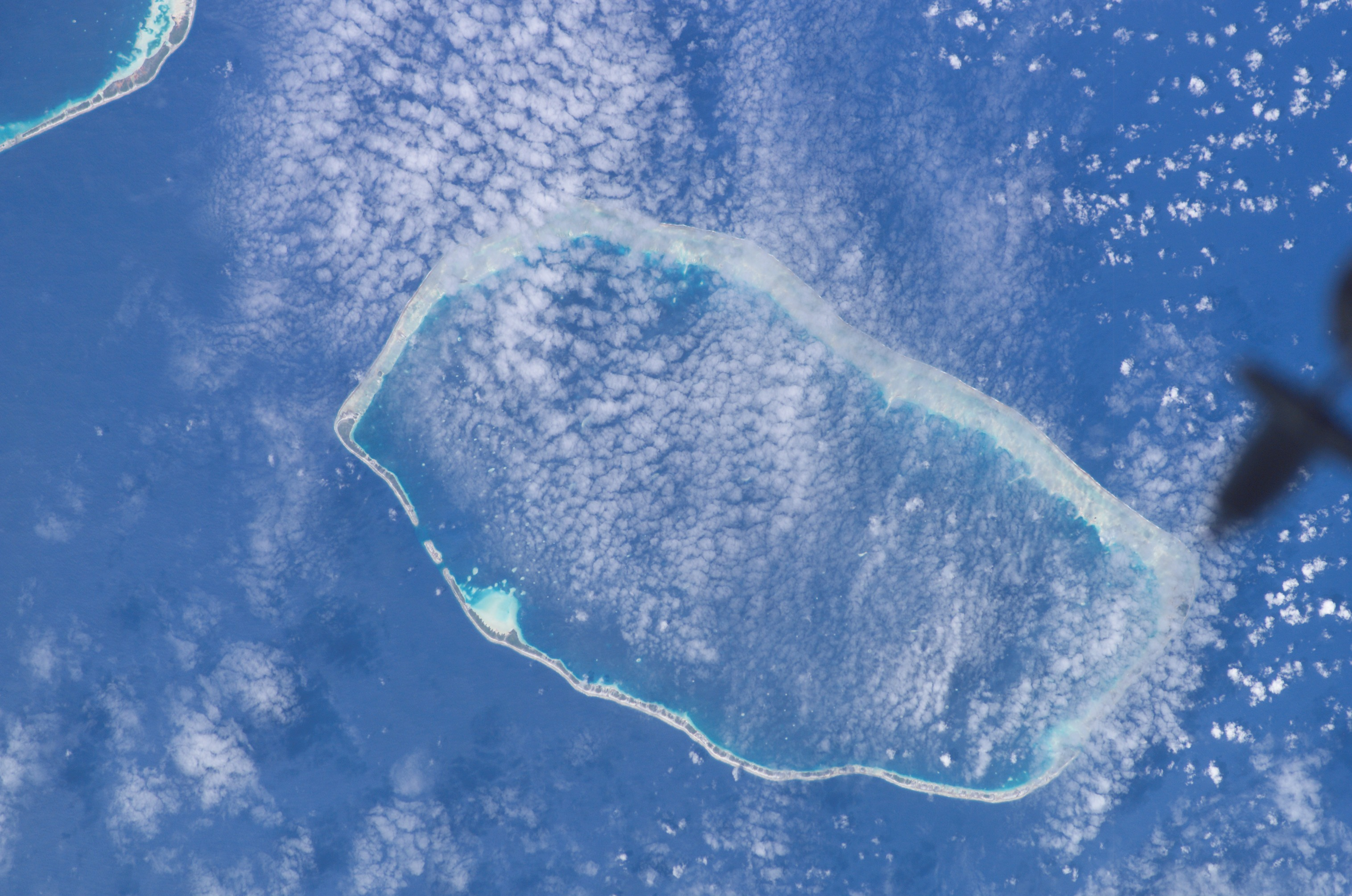 NASA Astronaut Image of Toau Atoll (Tuamotu Archipelago, French Polynesia) in the Pacific Ocean